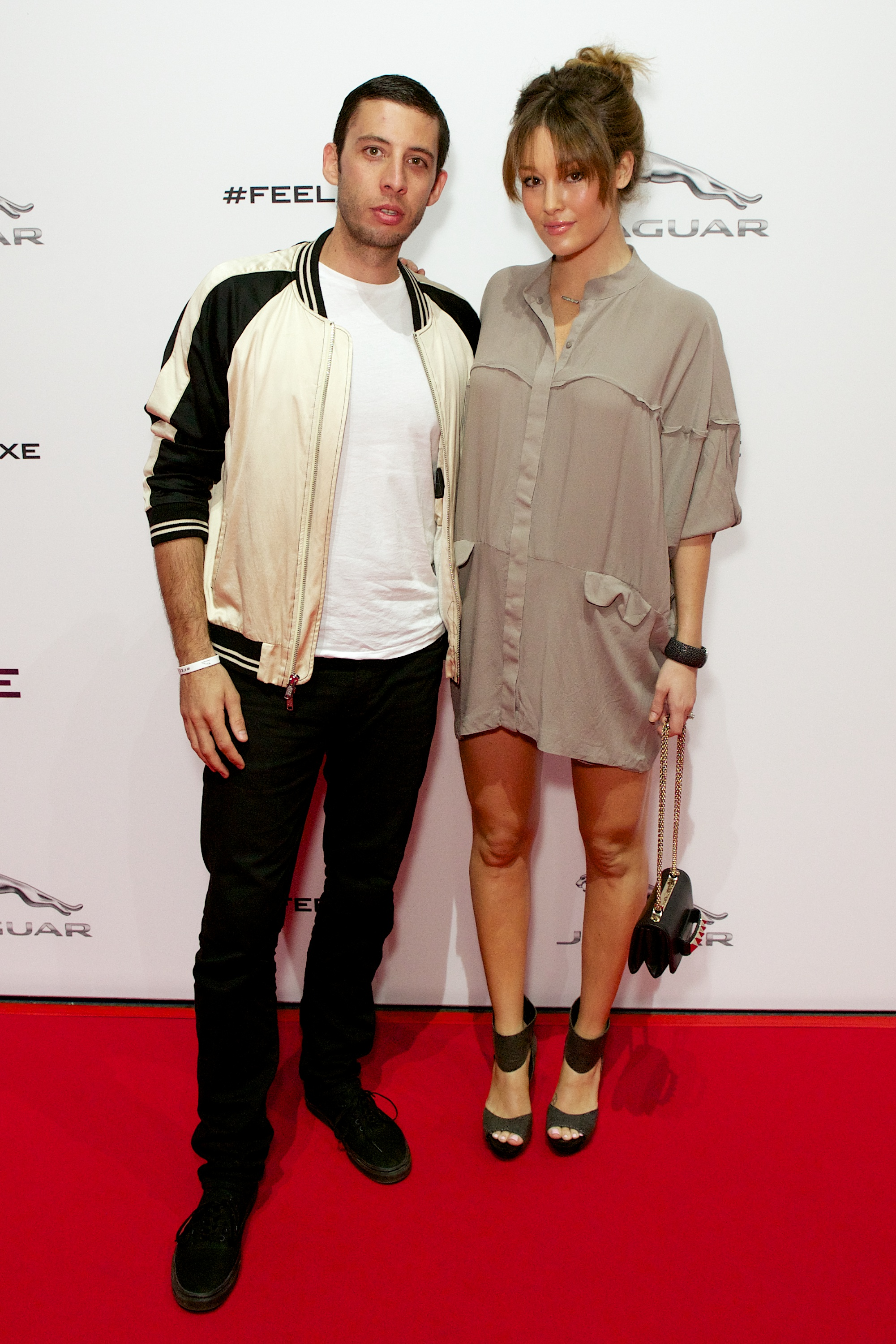 Example and Erin Greaves were guests of Jaguar at the reveal of the new XE in London, Monday 8th September 2014.